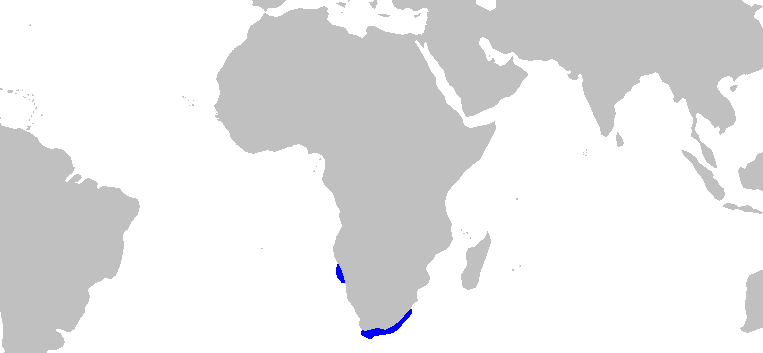 Range of the onefin electric ray (Narke capensis), based on [1]